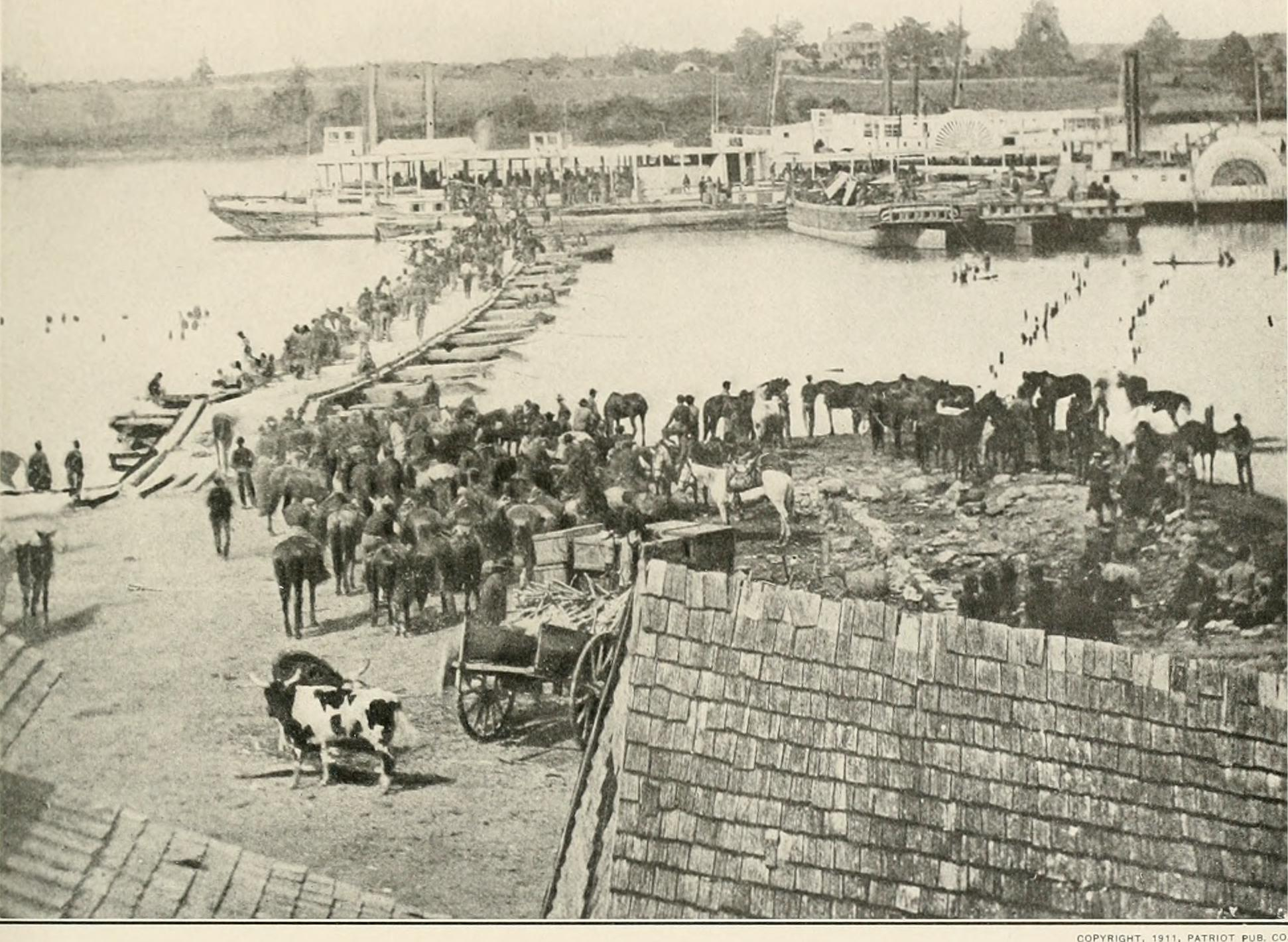 Title: The photographic history of the Civil War : thousands of scenes photographed 1861-65, with text by many special authorities Year: 1911 (1910s) Authors: Miller, Francis Trevelyan, 1877-1959 Lanier, Robert S. (Robert Sampson), 1880- Subjects: United States -- History Civil War, 1861-1865 Pictorial works United States -- History Civil War, 1861-1865 Publisher: New York : Review of Reviews Co. Text Appearing Before Image: ' Text Appearing After Image: A CHANGE OF BASE—THE CAVALRY SCREEN Tliis jiliotograph of May 30, 18C4, shows tlie Federal cavalry in actual operation of a most important func-tion—tlie screening of the armys movements. The troopers are guarding the evacuation of Port Royalon the Ra))pahannock, May 30, 1864. After the reverse to the Union arms at Spottsylvania, Grant or-dered the change of base from the Rapi)ahannock to McClellans former starting-point, White House onthe Pamunkey. The control of the waterways, combined with Sheridans efficient use of the cavalry, madethis an easy matter. Torberts division encountered Gordons brigade of Confederate cavalry at Hanover-town and drove it in the direction of Hanover Court House. Greggs division moved up to this line; Rus-sells division of infantry encamped near the river-crossing in support, and behind the mask thus formedthe Army of the Potomac crossed the Pamunkey on May 28tli unimpeded. Gregg was then ordered to recon-noiter towards Mechanicsville, and after a sev